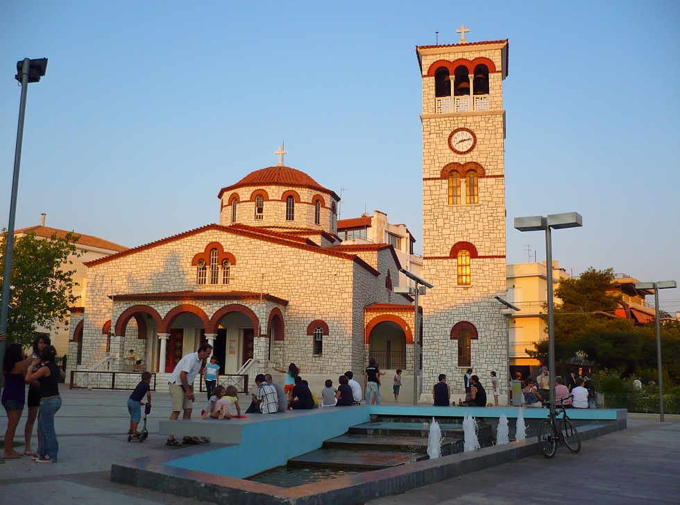 The picture illustrates tha Analipseos Church at Vrilissia, in Athens, Greece.